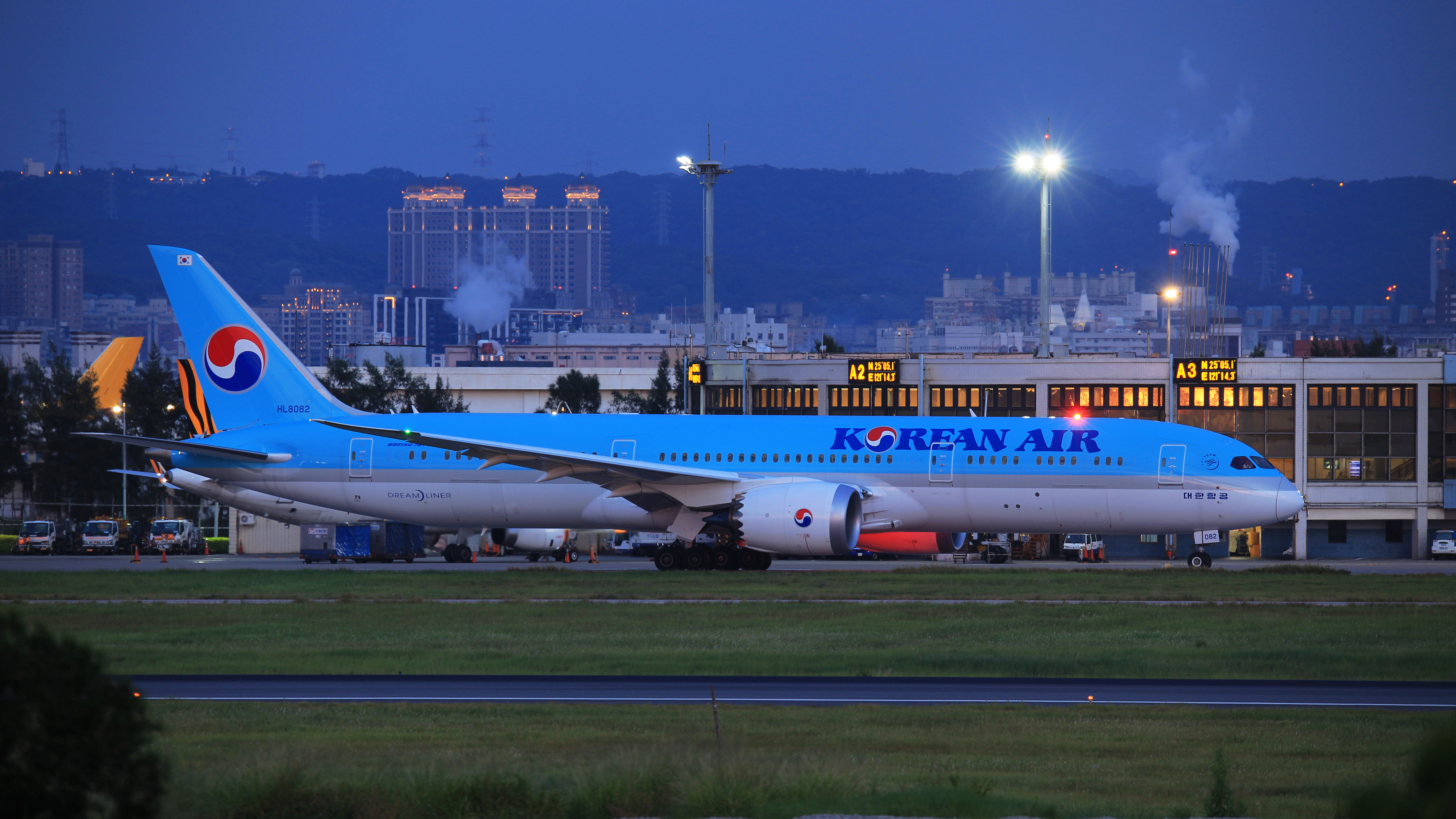 Korean Air Boeing 787-9 Dreamliner in Taiwan Taoyuan International Airport Registration : HL8082 MSN:34811 LN:549